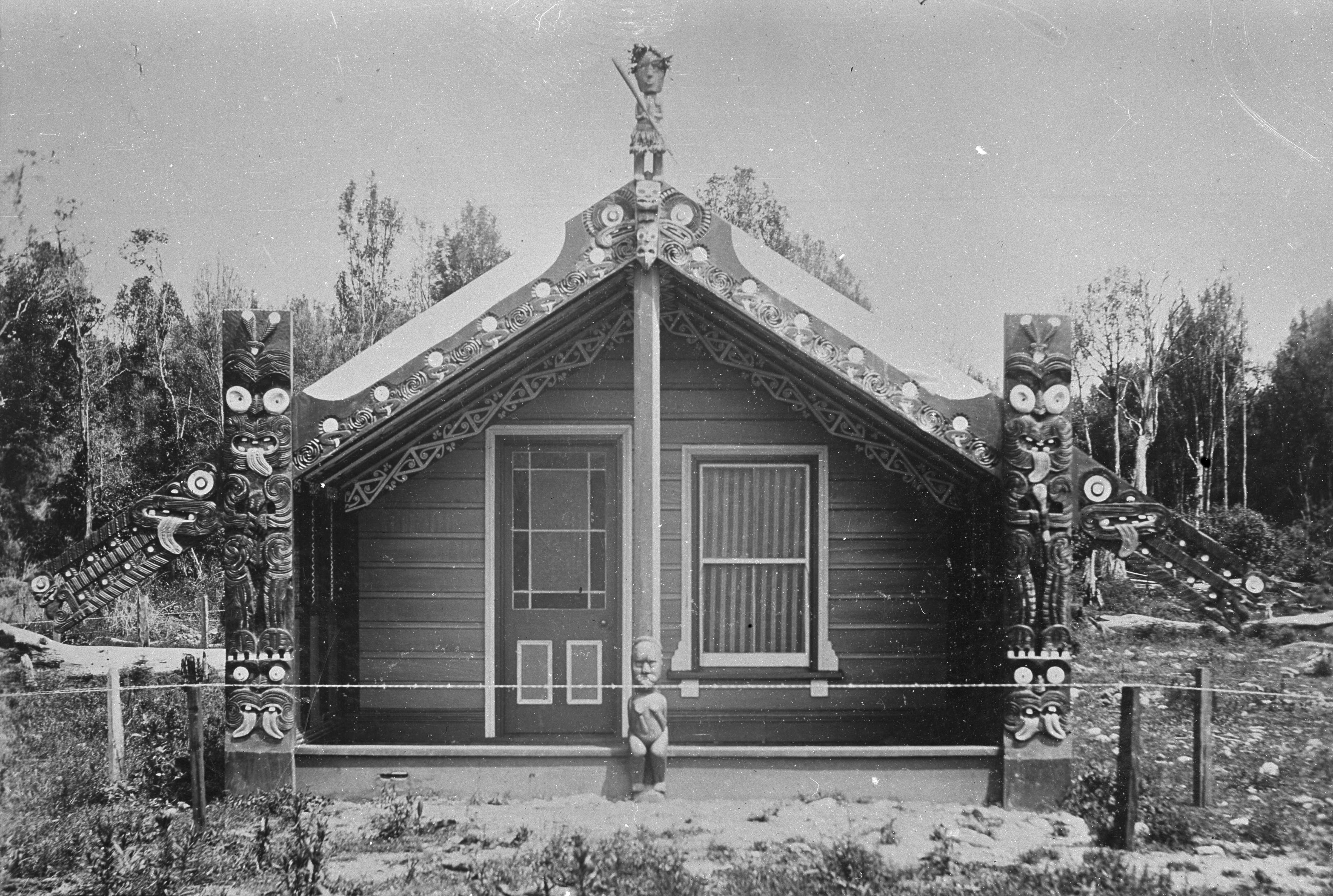 House of Te Ua Whaka at Manakau. Original photograph taken by A Anderson in the 1880s. This image is a copy of the original photograph taken by Albert Percy Godber, showing the picture in a frame, piece of rope stretched underneath the image, and an inscription hand written on the wood beneath: Te Ua Whaka's house, Manakau.